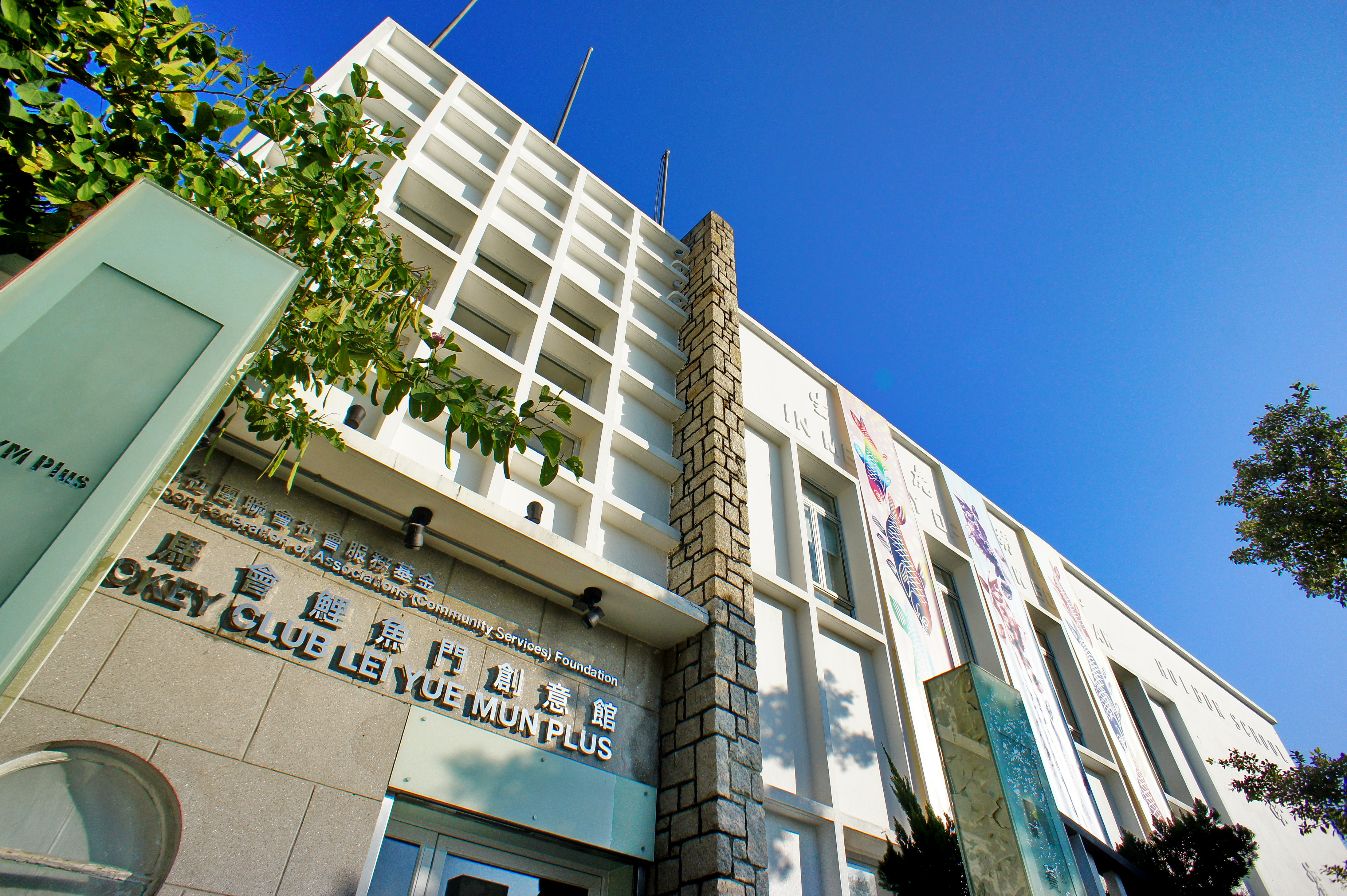 Jockey Club Lei Yue Mun Plus (formerly the Hoi Bun School), 45 Hoi Pong Road Central, Lei Yue Mun, Kwun Tong, Kowloon, Hong Kong.